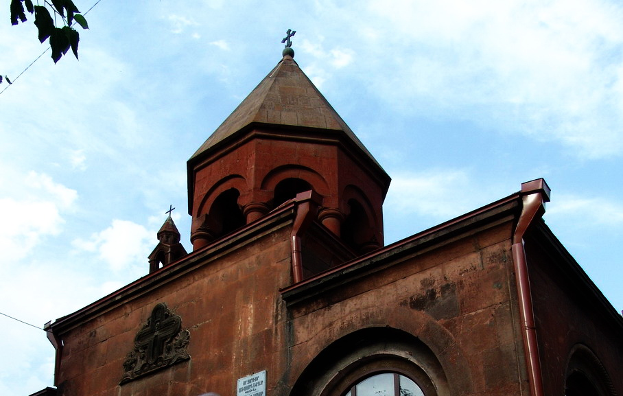 Surp Zoravor bell tower